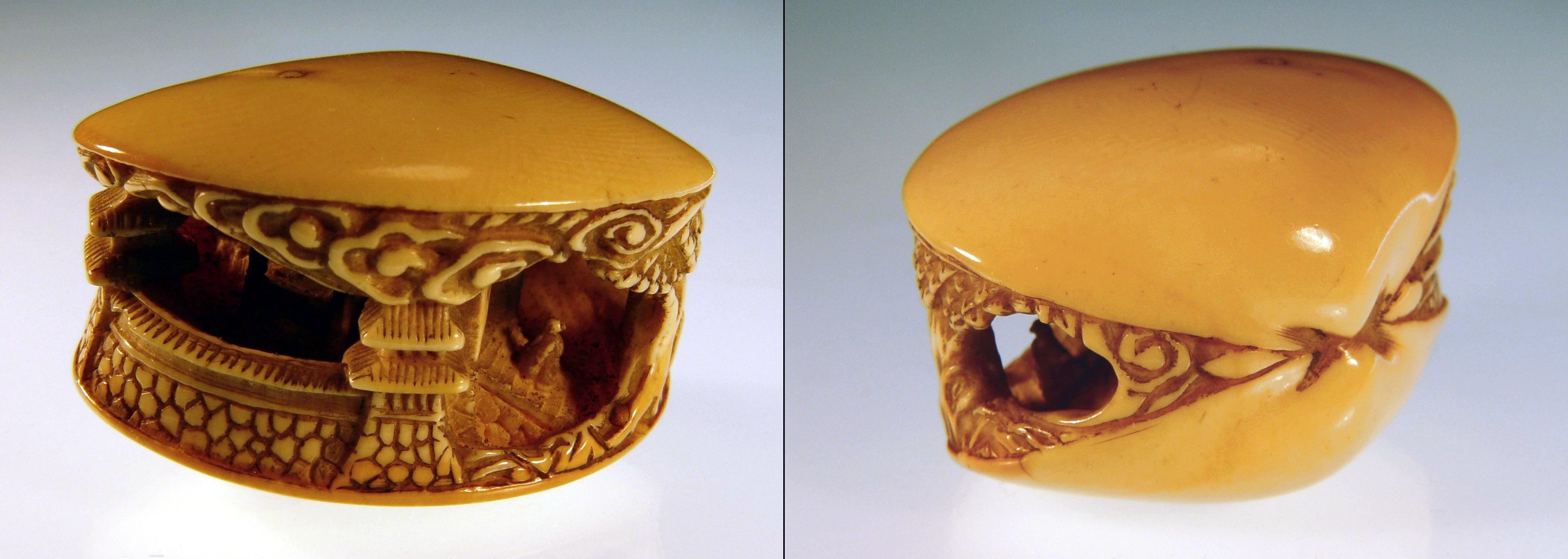 This 19th century anabori netsuke depicts a hamaguri (clam) palace. The netsuke is ivory, 1.5" (39mm) across.